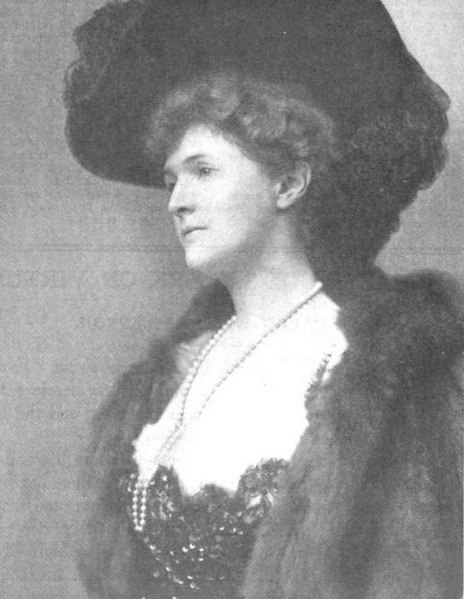 Mrs. Frank Gray Griswold, from a photograph by the Campbell Studio, New York as published in The Scrap Book, under "Types of Fair Women", 1908